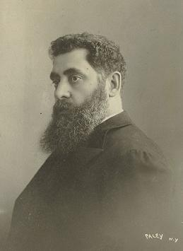 Jacob Mikhailovich Gordin